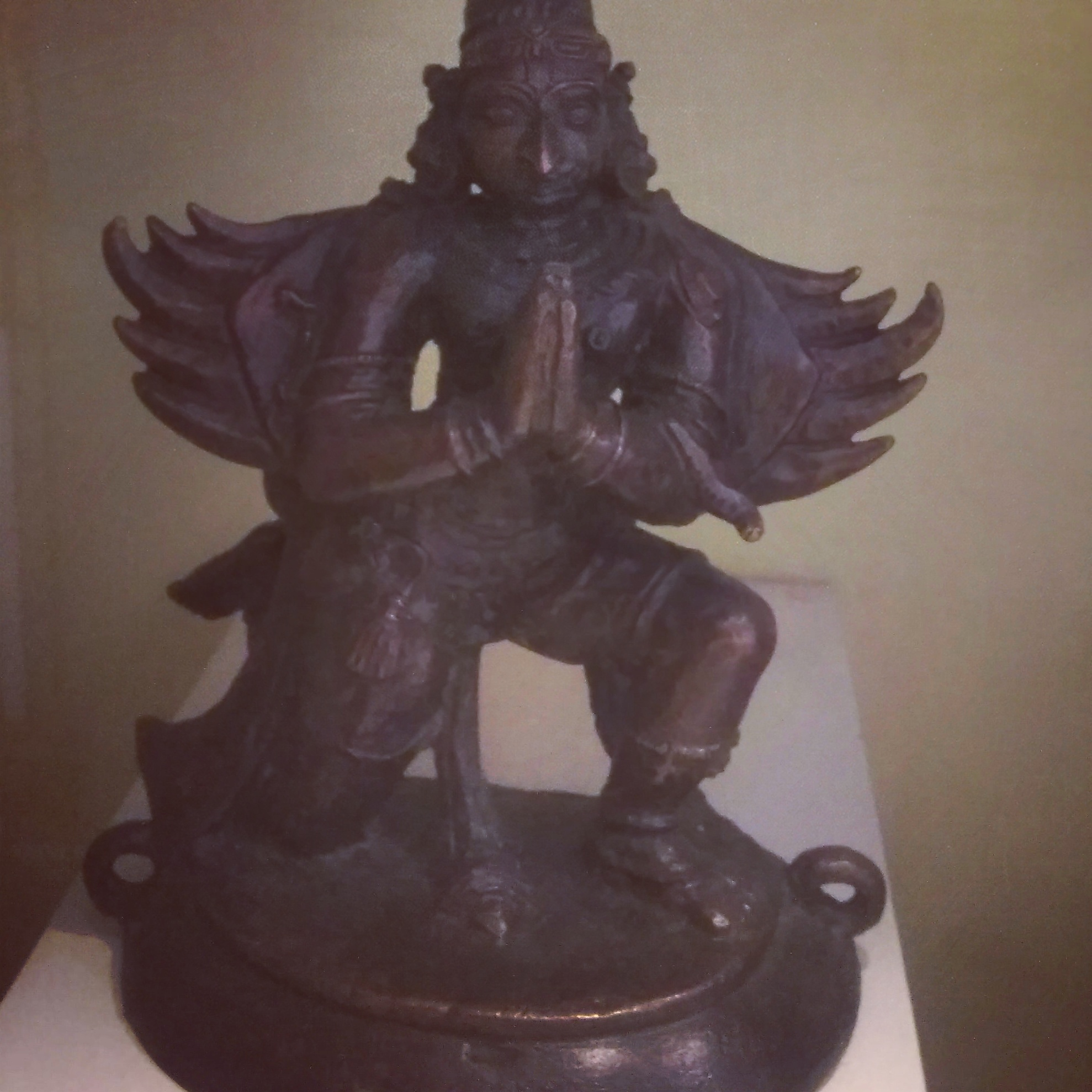 Garuda: Garuda Alidhasama on the circular pedestal is holding his two hands in anjalimudra. He wears kirita,kundalas,haras,skandamalas ,skandamalas, keyuras and valayas. His drapery is fastened with mekhala with the tessels dangling on either side of his arms and Siras chakra are also seen.